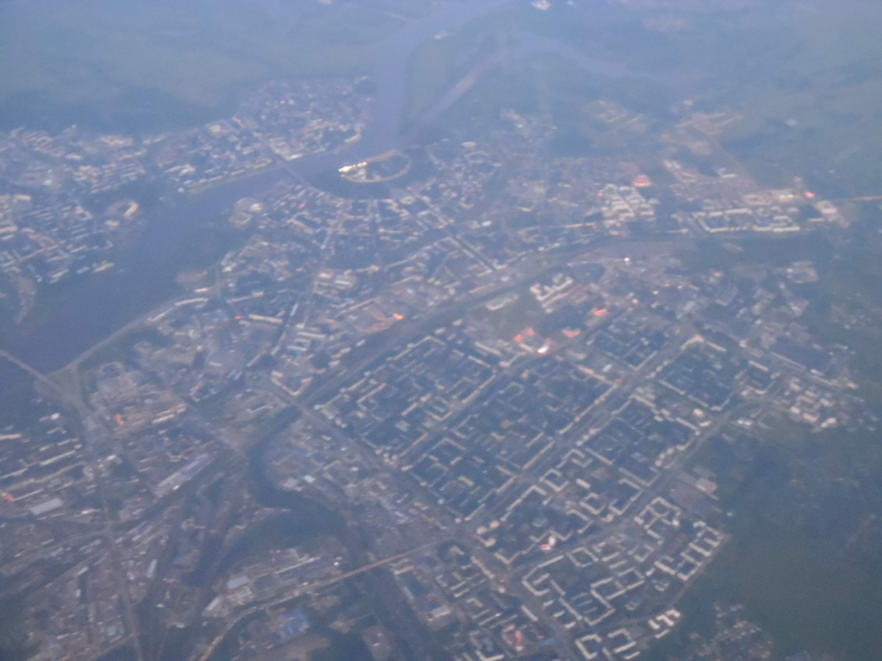 Velikii Novgorod from air